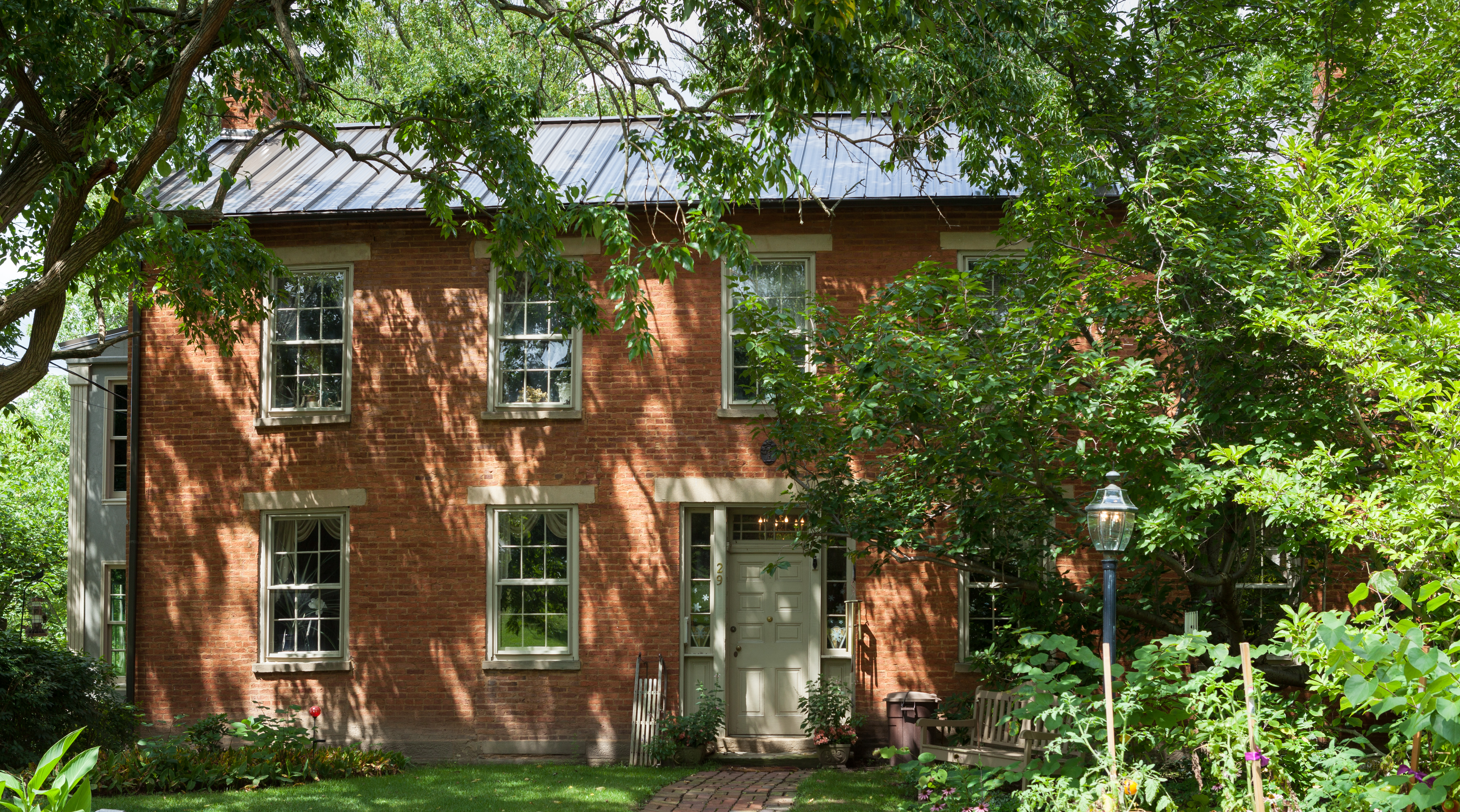 Caldwell Tavern in Claysville, Pennsylvania, was originally a tavern facing the National Road; 20th century changes moved U.S. Route 40 behind the house.